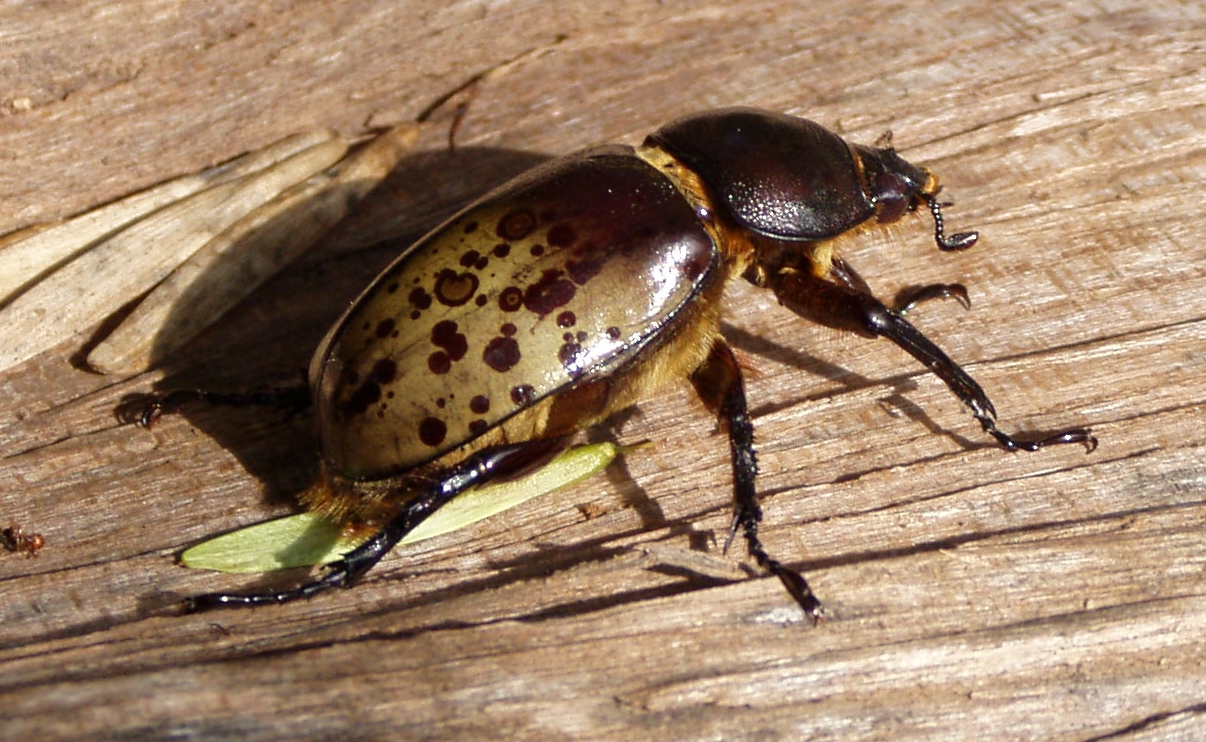 An adult female Eastern Hercules Beetle (Dynastes tityus) in Parker County, Texas